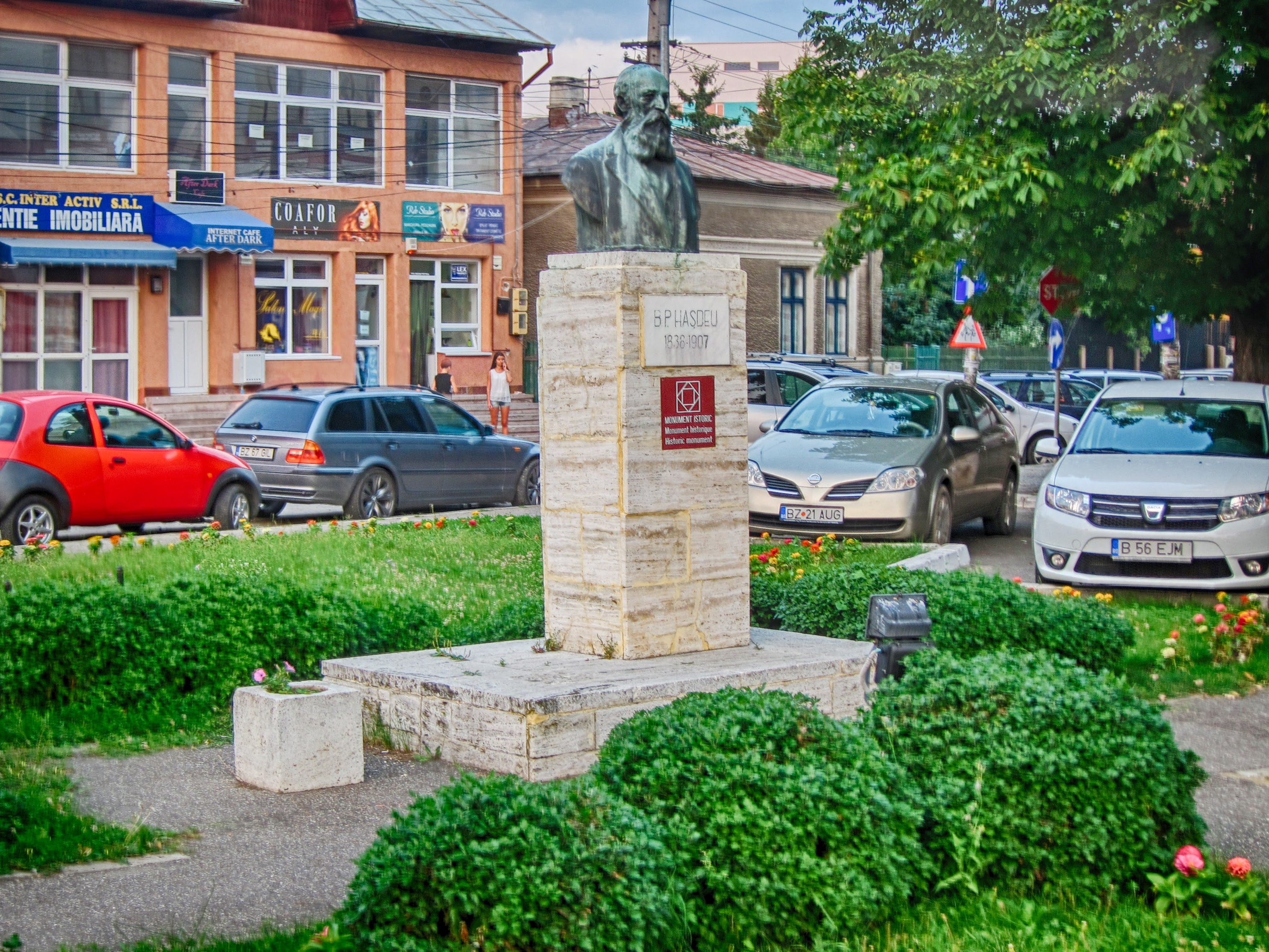 Bust of B.P. Hasdeu in front of B.P. Hasdeu National College, Buzău, RomaniaRomână: Bustul lui B.P. Hasdeu în fața Colegiului Național B.P. Hasdeu, Buzău, România